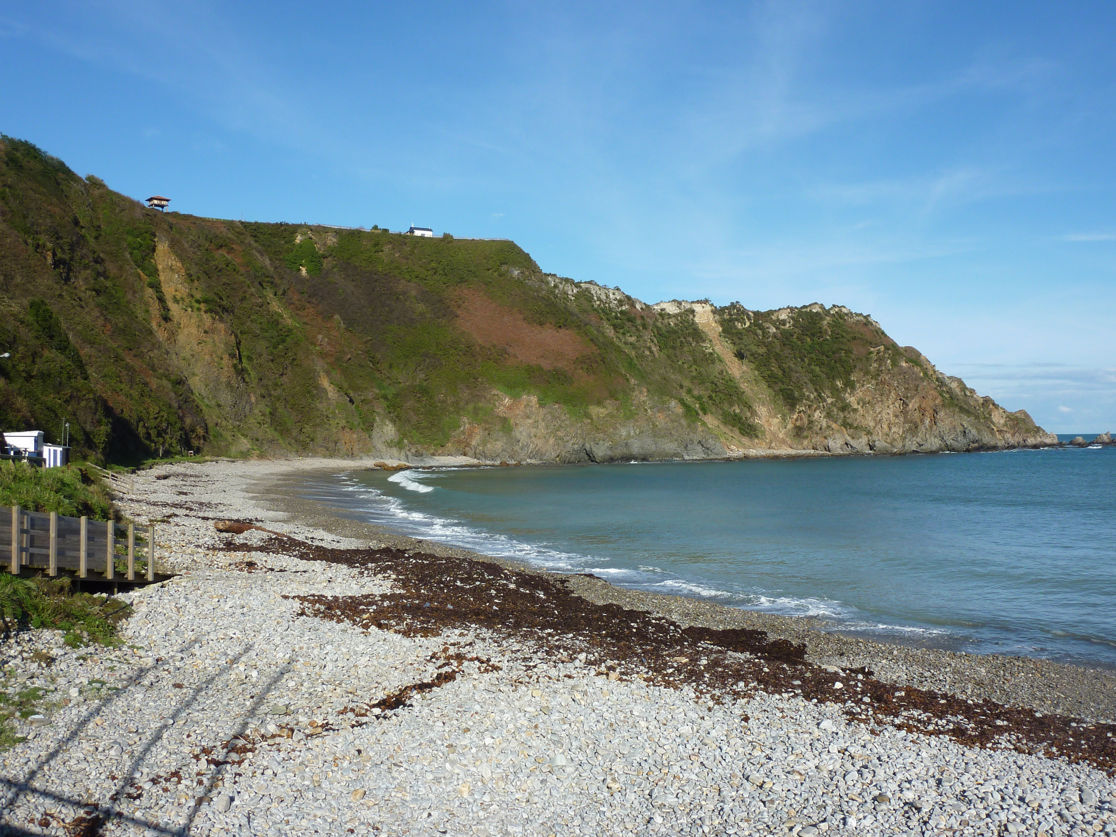 Beach at Cadavedo, Asturias, Spain